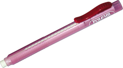 Pentel stick eraser